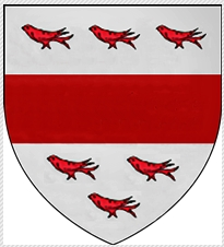 Washbourne arms: "Argent a fess between six martlets gules". When the vast estates that Urse d'Abitot had accumulated were usurped from his son Roger, a substantial portion of the same, including the lands of Little Washbourne, were ultimately bestowed upon his sister's husband, Sir Walter Beauchamp of Elmley. The Washbourne family that resided at Little Washbourne thereafter, did so as under-tenants to their now over-lords, the Beauchamps of Elmley Castle. The arms for this branch of Beauchamps' were "Gules a fess between six martlets or". Sir John d'Wasseburne, formally of Dufford, son of Sir Roger, is the first Washbourne to be suggested as having borne the Beauchamp "a fess between six martlets" arms, changing the tincture's to the Washbourne colors of Argent and Gules as shown. "Gules a fess between six martlets or". The arms for Sir Walter Beauchamp of Elmley Castle, bore a red shield with gold fess and martlets, and the Washbournes' bore a silver shield with red charges. This feudal homage was also borne by and recorded for several other families. Members of the Wysham, Walshe, Waleys, Burdett, Blount, Cardiff and other families, all bore these "fess between six martlets" arms, in differing tinctures. All of these other families are recorded as marrying into the Beauchamp family.